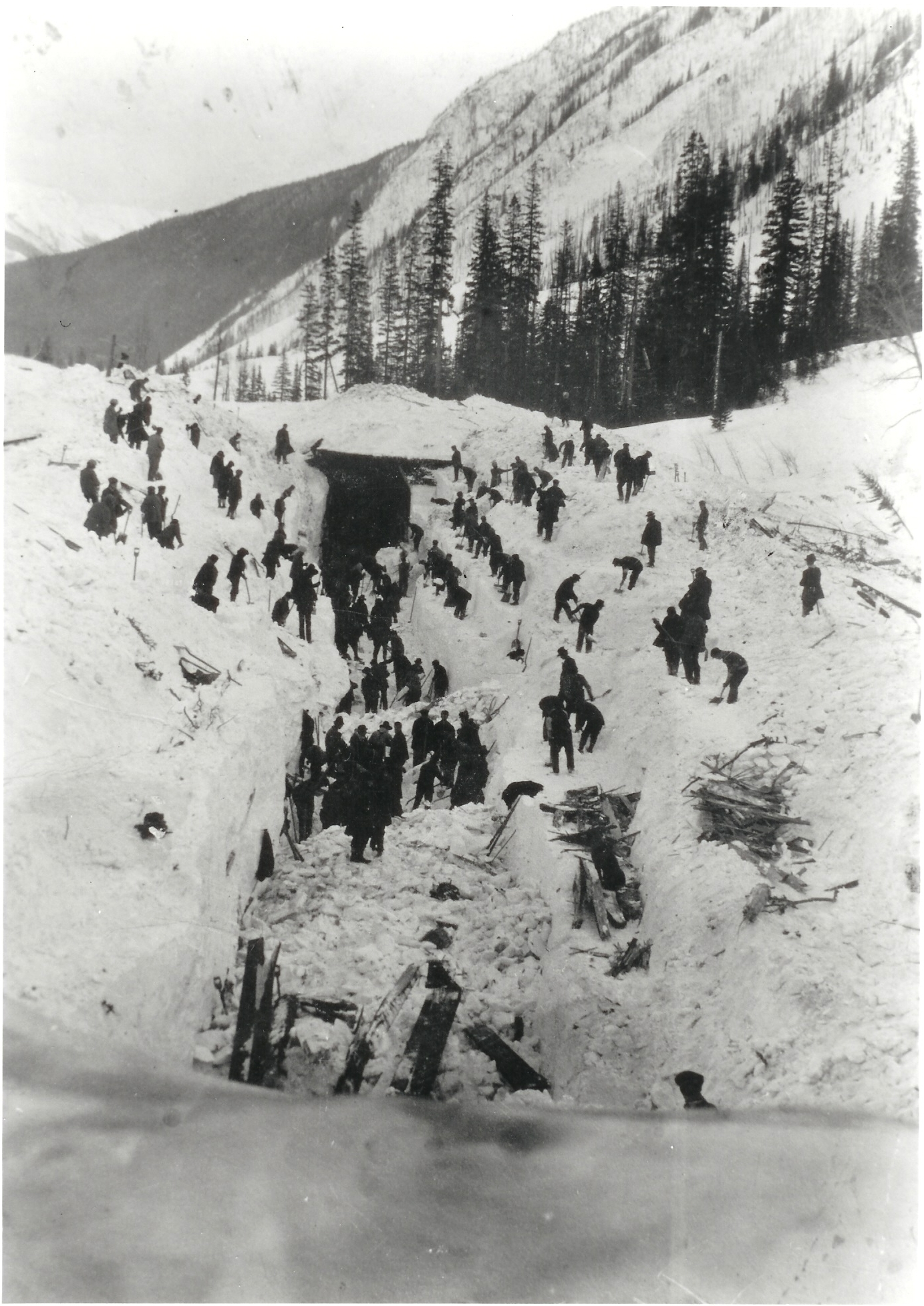 The aftermath of the 4 March 1910 avalanches at snow shed 14 in Rogers Pass, British Columbia, Canada. Fifty-eight men died in what is still the nation's worst avalanche disaster.